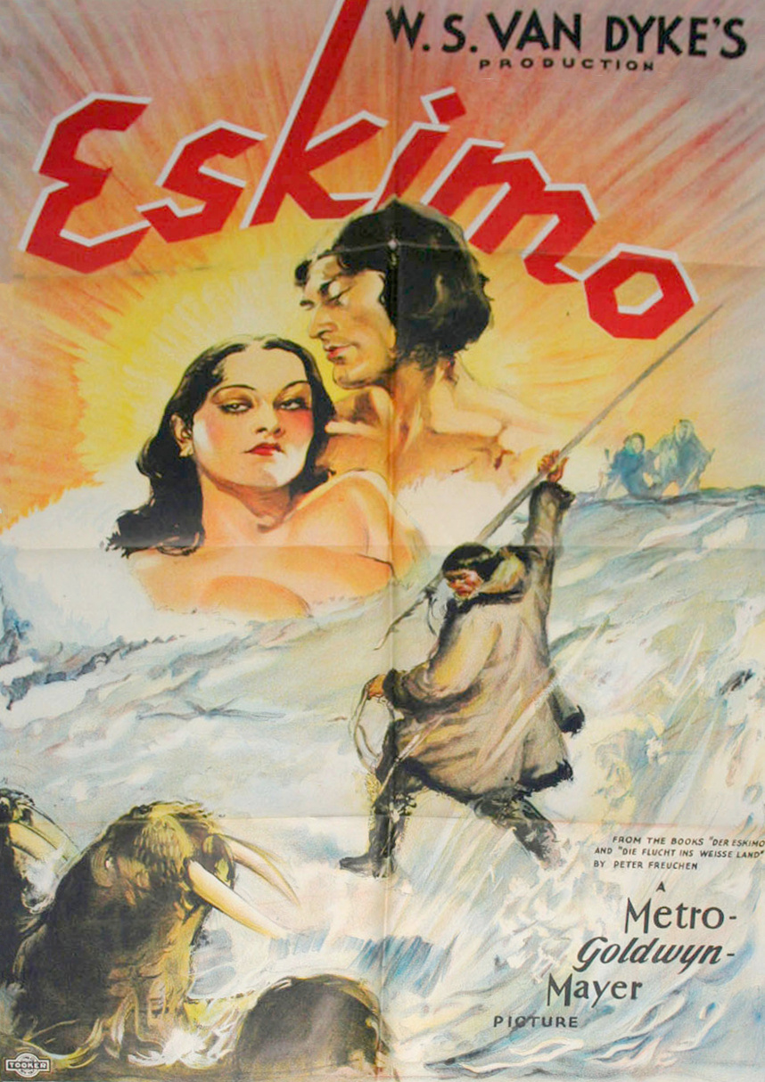 Poster for the film Eskimo (1933). The poster is from the collection of Volney Pfifer, and was auctioned on October 13, 2012 in Columbus, Georgia. See MGM Treasures Auction. Preston Opportunities, Inc.. Retrieved on 2013-02-14.